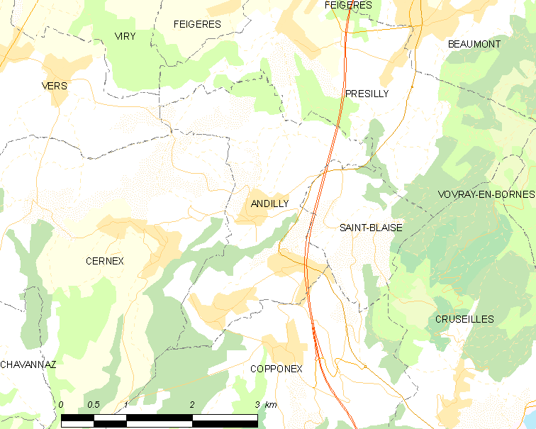 Map of French municipality Andilly